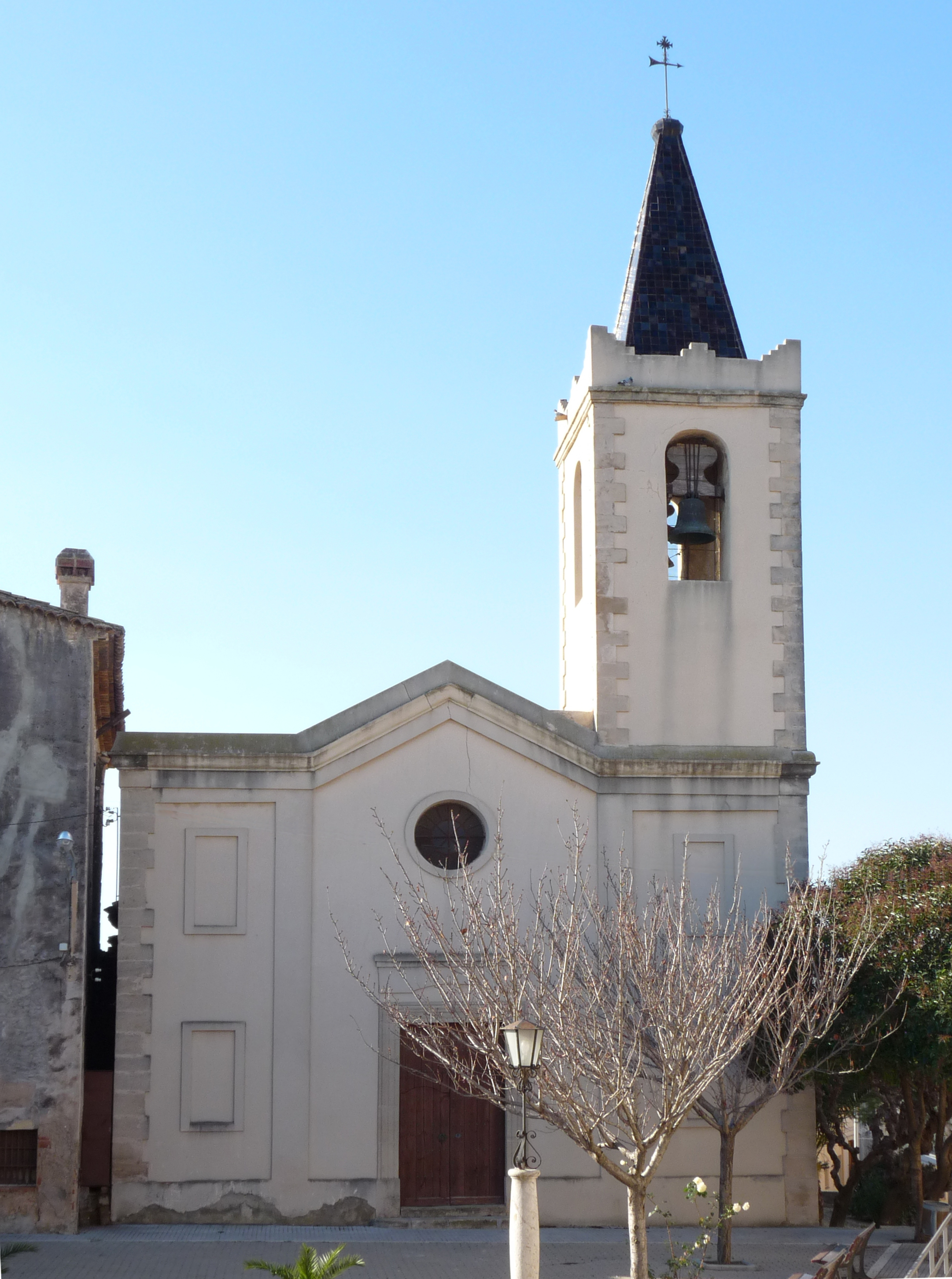 Sant Jaume's Church (els Garidells)